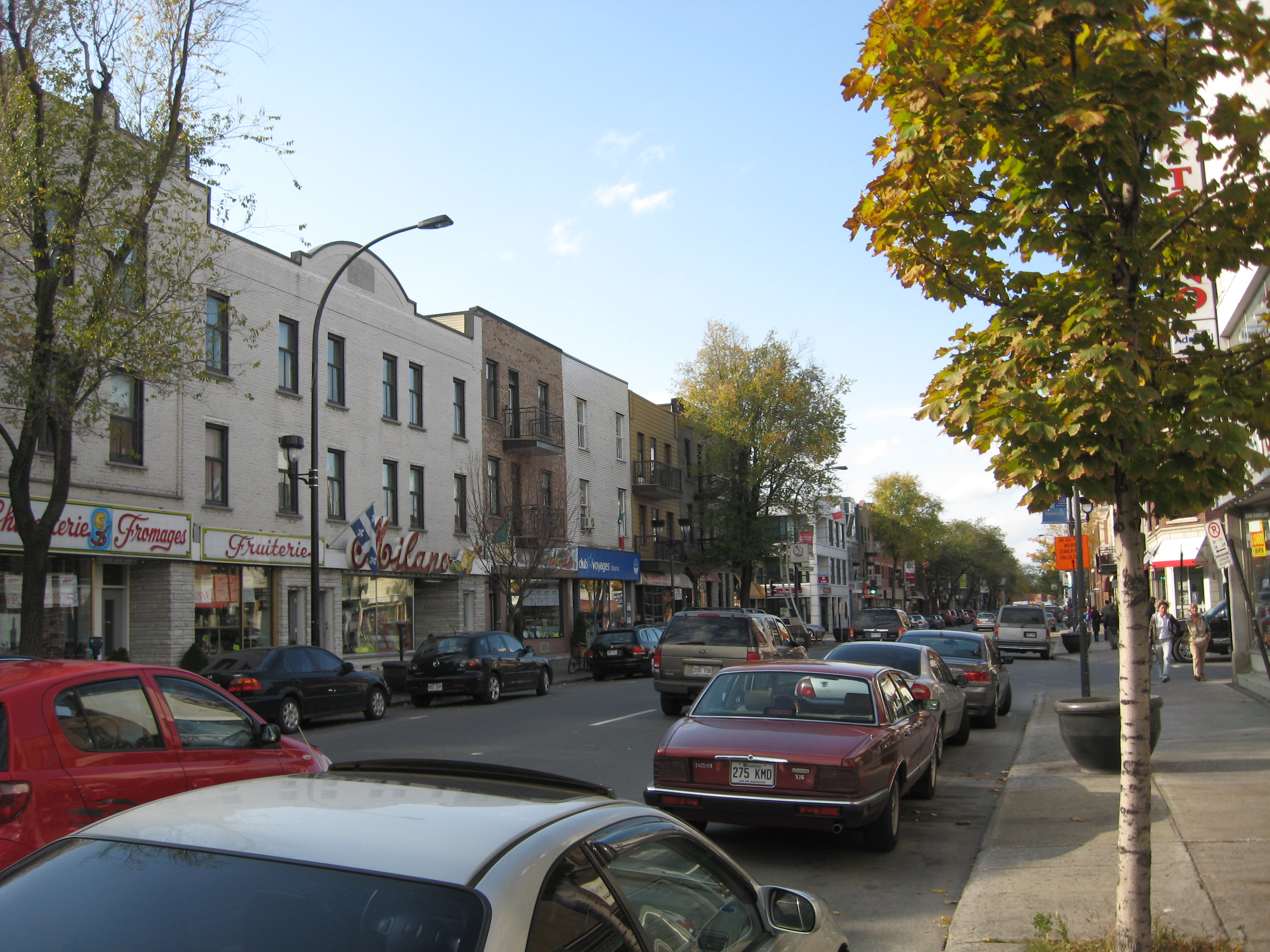 Little Italy on St-Lawrence Boulevard, Montréal, Québec